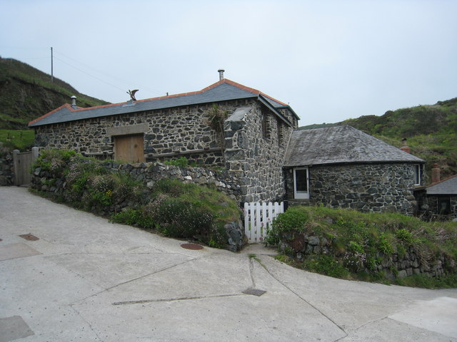 Fish cellars at Church Cove These would have been used for pressing salted pilchards into barrels for storage and export to the continent. The round ended building on the right appears to have been a capstan house for winding boats up onto the slipway.